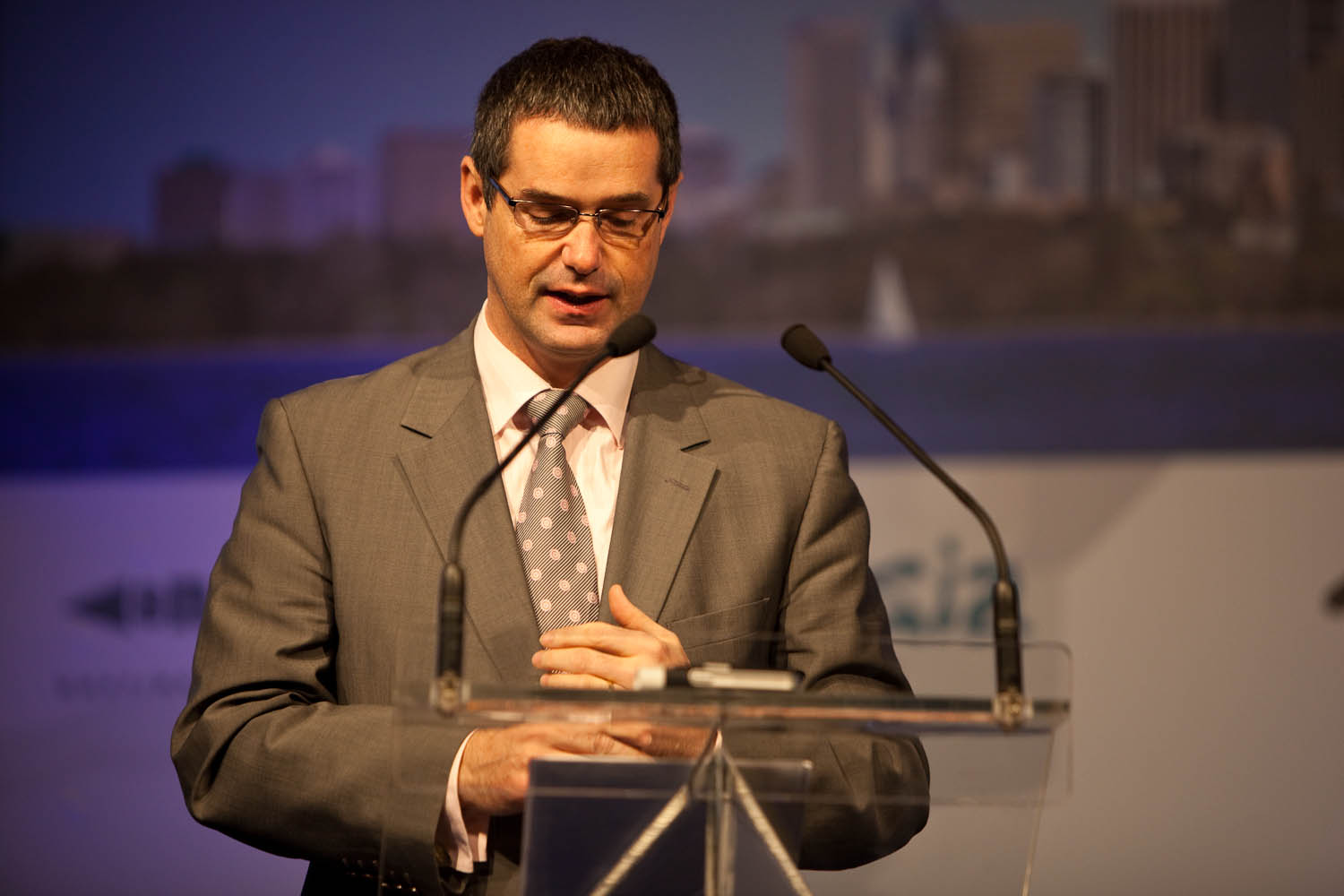 Senator Stephen Conroy, Minister for Broadband, Communications and Digital Economy for Australia; opens the ICANN 35 meeting in Sydney.